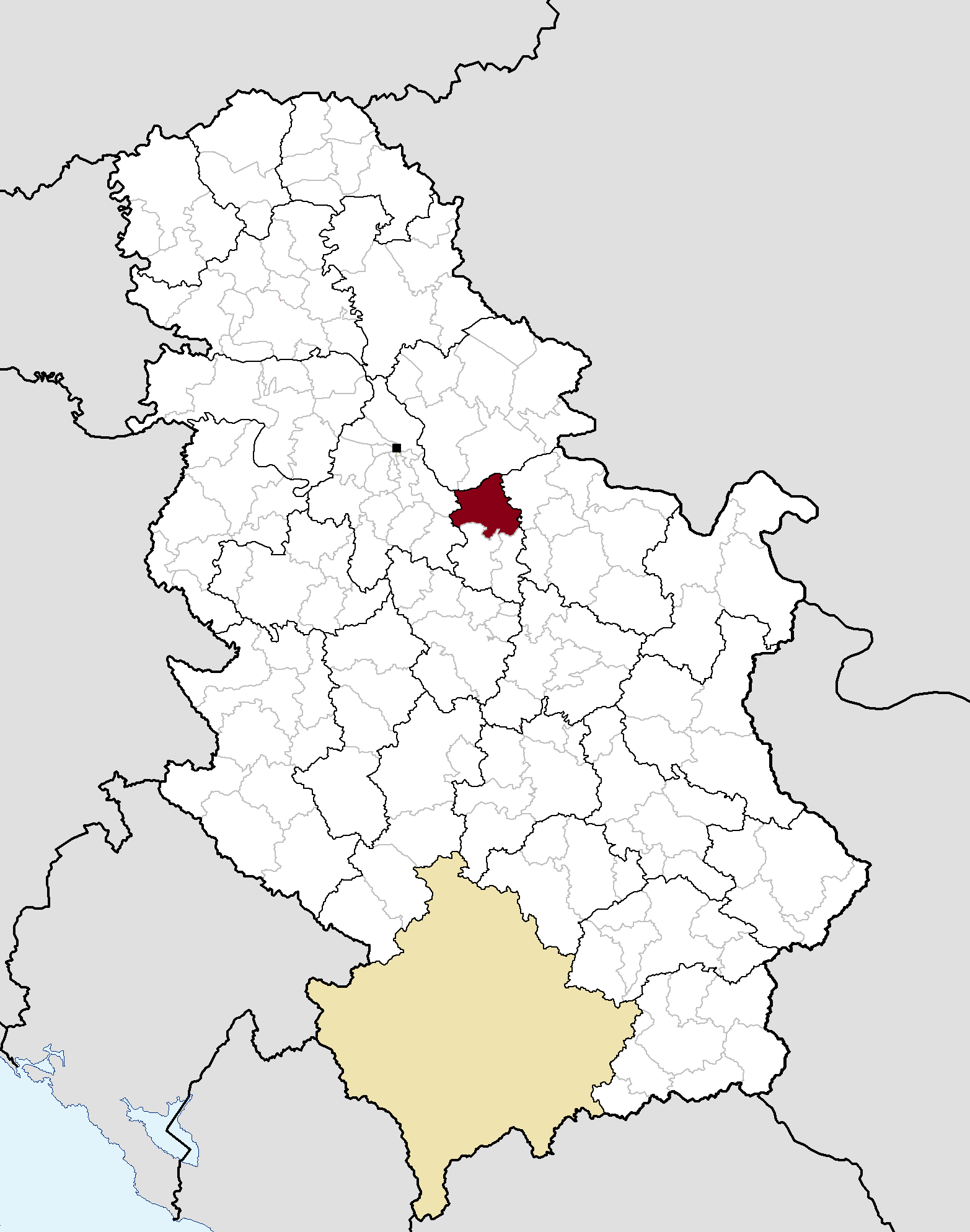 Municipal location in Serbia